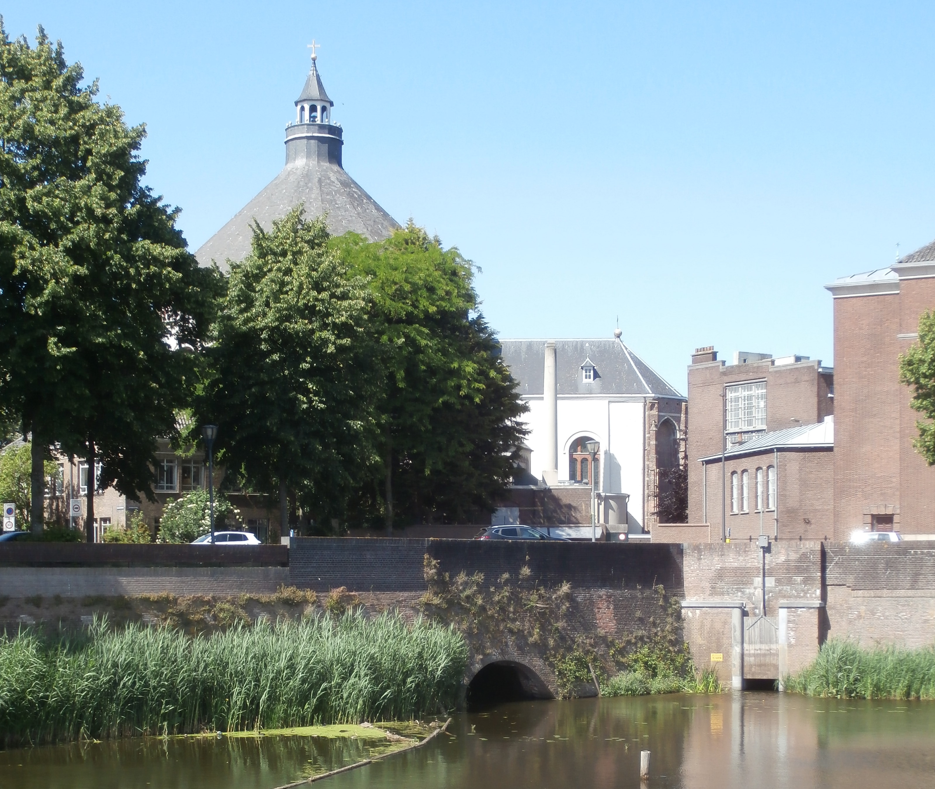 View towards Catharina kerk. On the right the old Kerkstroom entrance with sluice. On the left the new Kruisbroedershekel built in 2002.